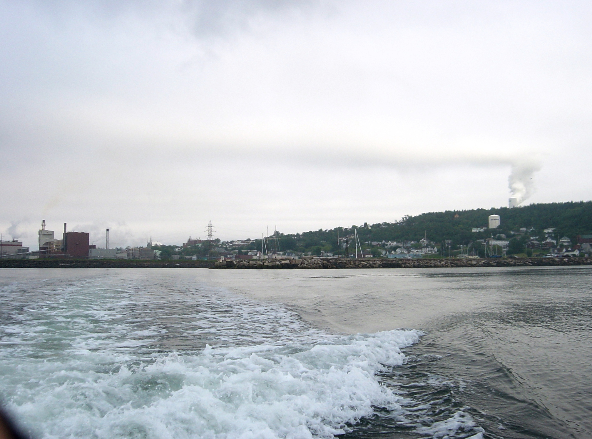 Photo of Dalhousie